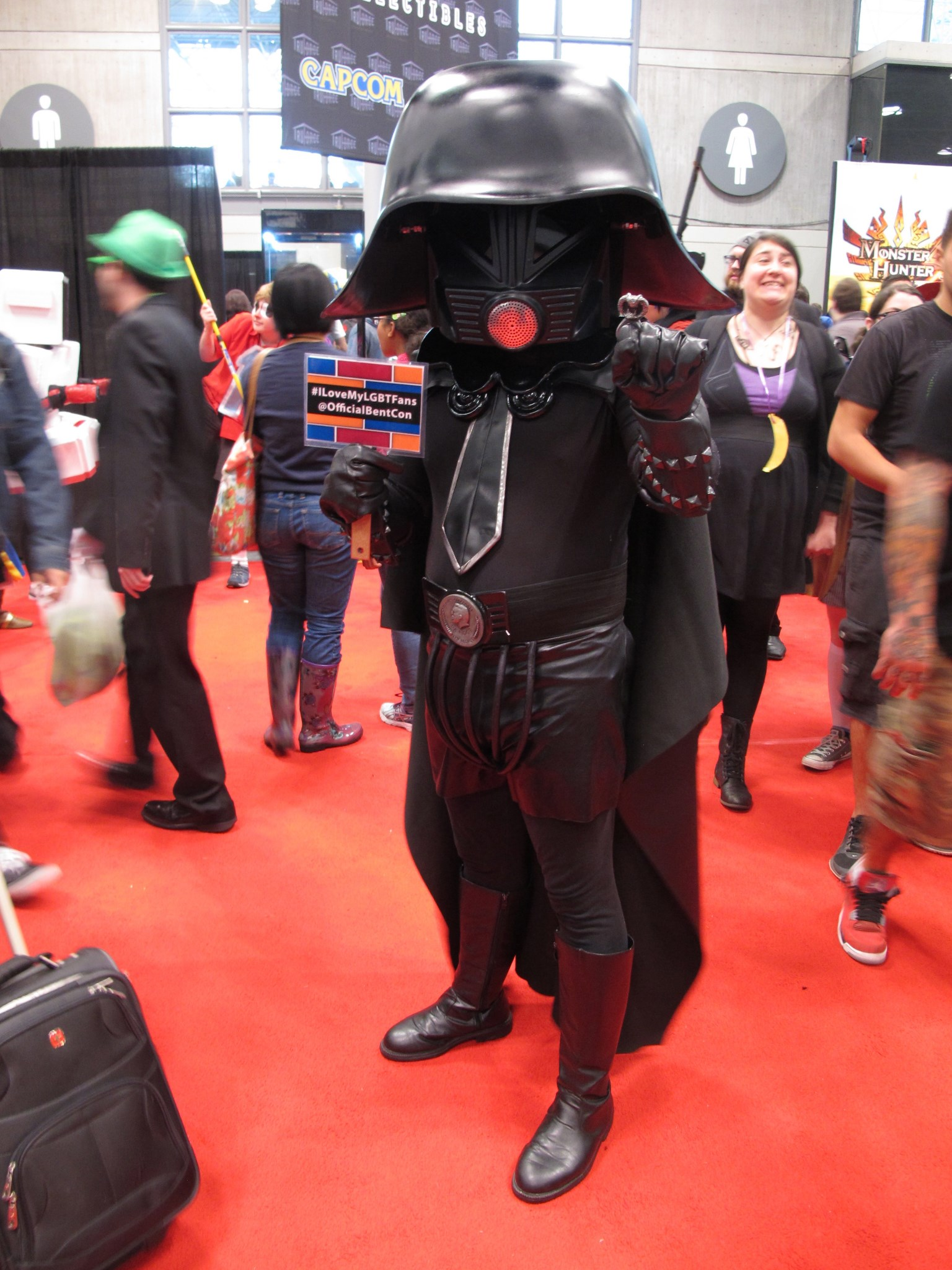 Dark Helmet Cosplay at the 2014 New York Comic Con.